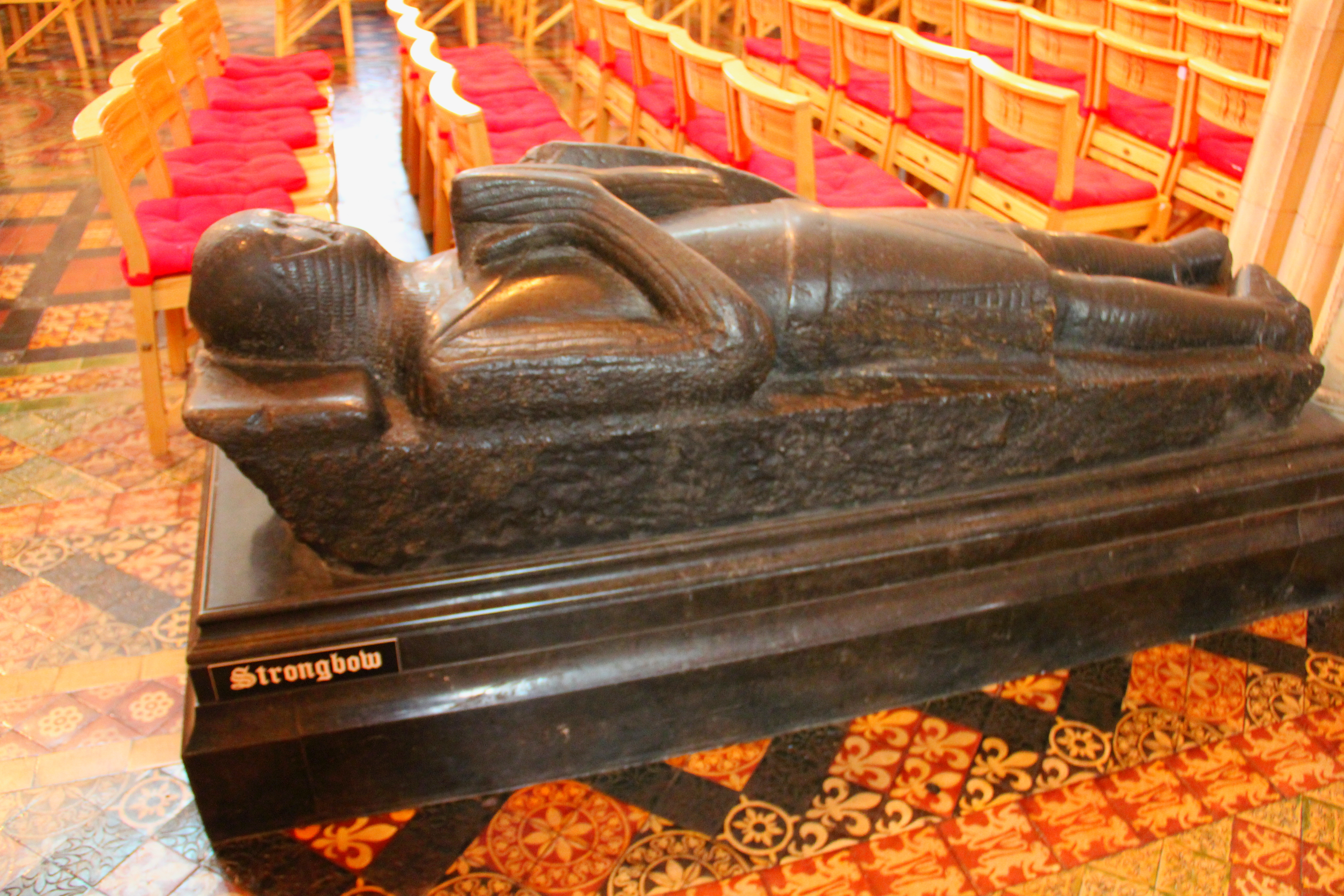 The effigy of Strongbow in Christ Church Cathedral, Dublin, Ireland. Strongbow's original effigy had been used as a meeting place for conducting business transactions. So, when the original was crushed in the 1562 partial collapse of the cathedral, this effigy was used as a replacement.